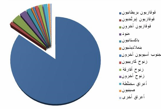 2005 estimates of ethnic groups in England